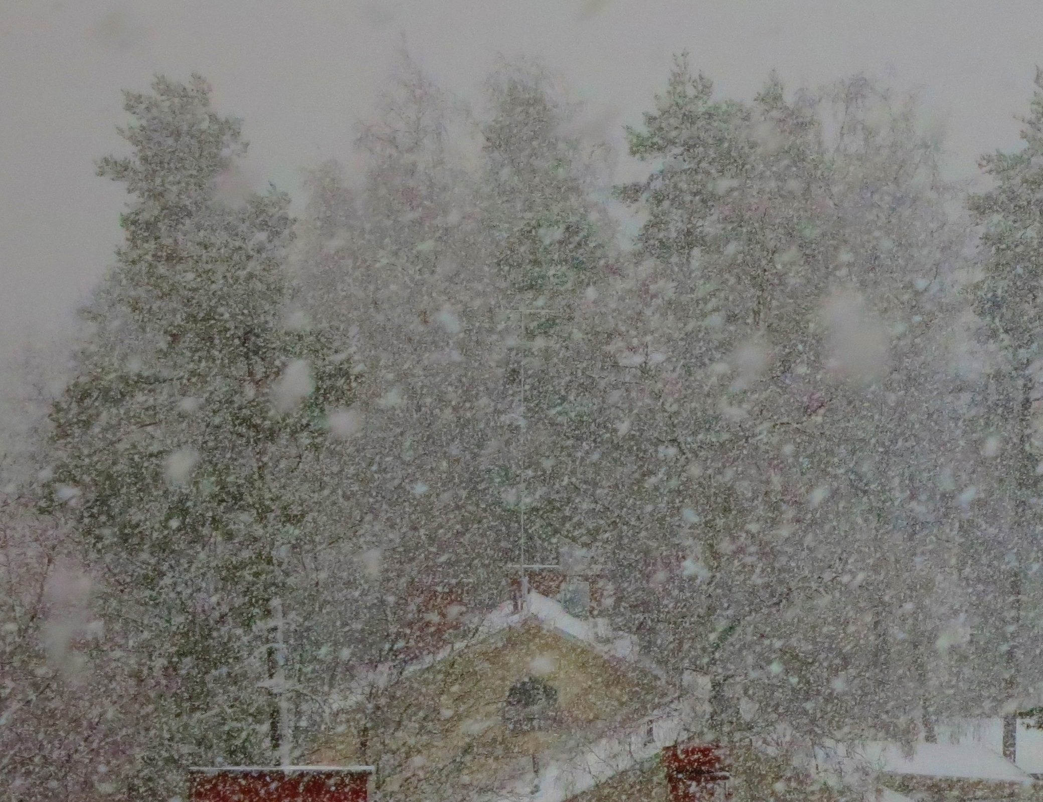 Snowfall (Hyvinkää, Finland)